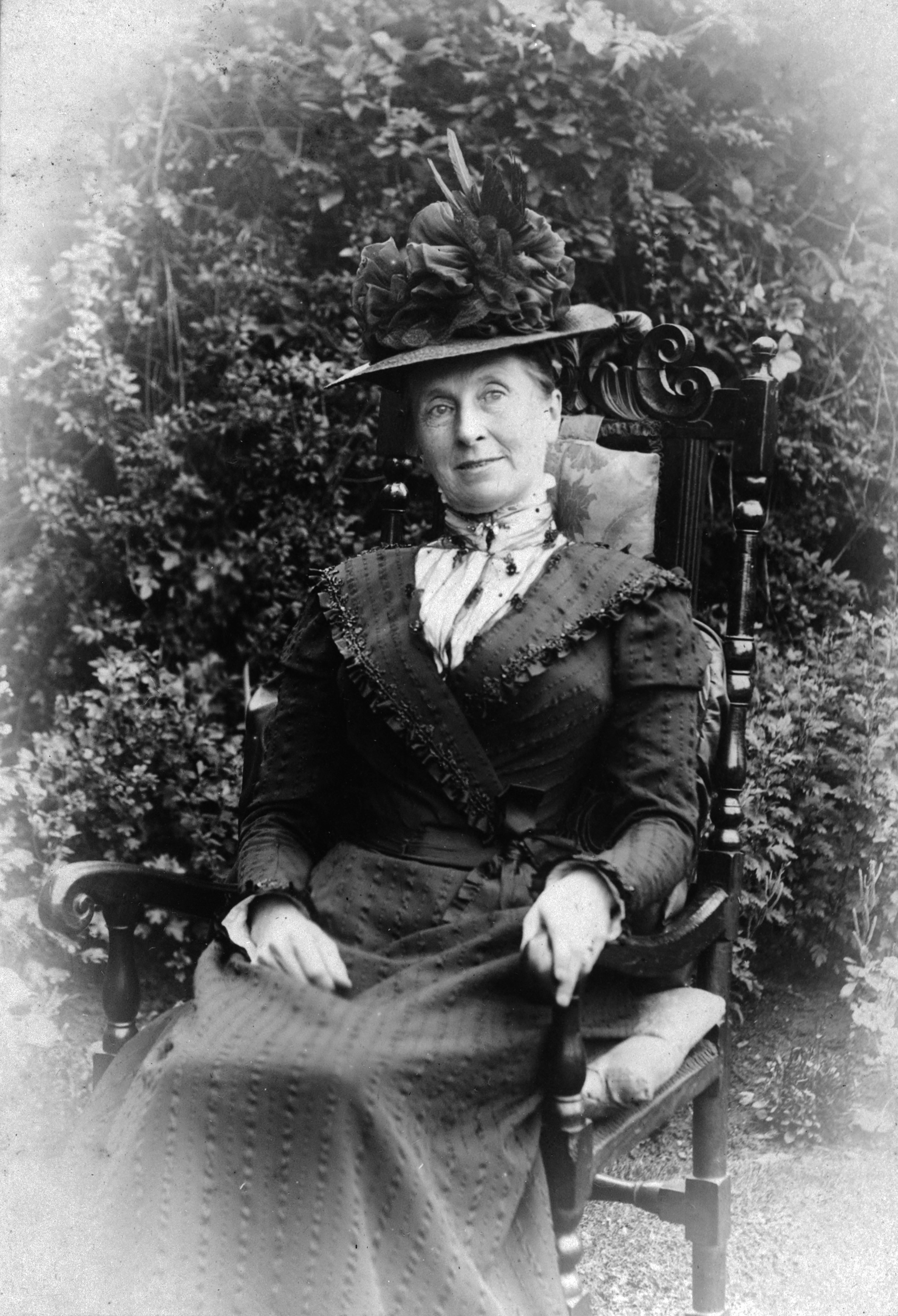 Elizabeth Mary Rolleston, 1900. Location and photographer unknown.